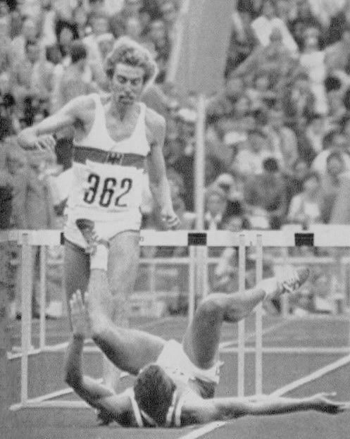 LG10 '72 Wire Photo WOLFGANG BEUTTNER CHRISTIAN RUDOLPH 400m Olympic Hurdle Fall